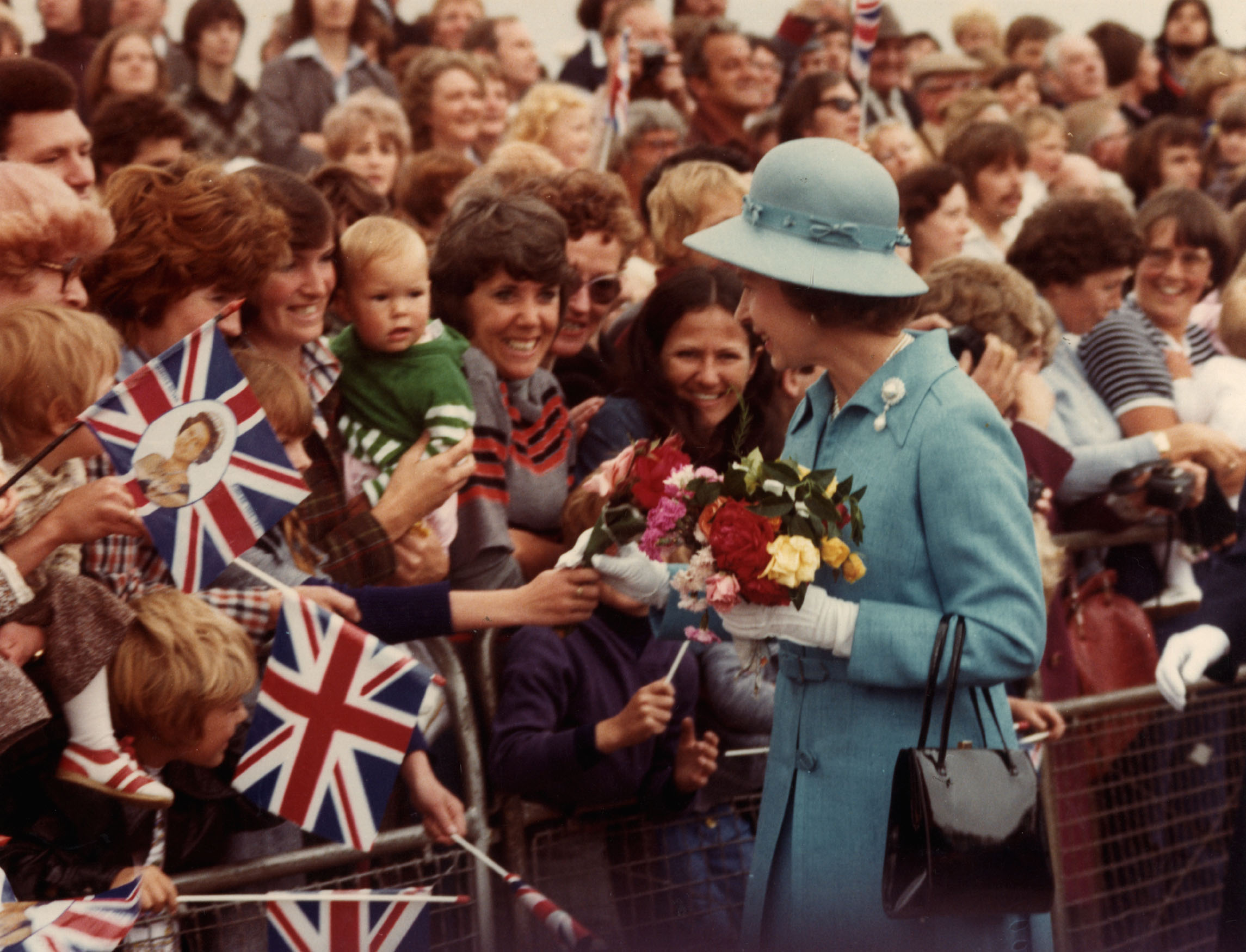 This is a photograph of the Queen visiting Washington, UK. The photograph was taken in 1977. Reference: 5417/289/3 This collection of images has been assembled in support of the Washington Heritage Festival 2013. The celebration of Washington brings together a variety of different themes. Washington is a Town in the City of Sunderland, Tyne & Wear. It is traditionally associated with Coal Industry, and notably known as the home of the Washington Family, ancestors of the First President of the United States George Washington. However, in 1964 Washington was designated a New Town and drastically changed. With the introduction of new industry such as the Nissan Car Factory Washington experienced a huge redevelopment in both its economy and community. These Photographs are taken from the Records of the Washington Development Corporation; held at Tyne & Wear Archives. The records document this change in industry, landscape and community in Washington between 1964 & 1988, and consist of many photographs. For more information on the Washington Heritage Festival, 21st September 2013 please click here. (Copyright) These images are Crown Copyright. We're happy for you to share these digital images within the spirit of The Commons. Please cite 'Tyne & Wear Archives & Museums' when reusing. Certain restrictions on high quality reproductions and commercial use of the original physical version apply though; if you're unsure please